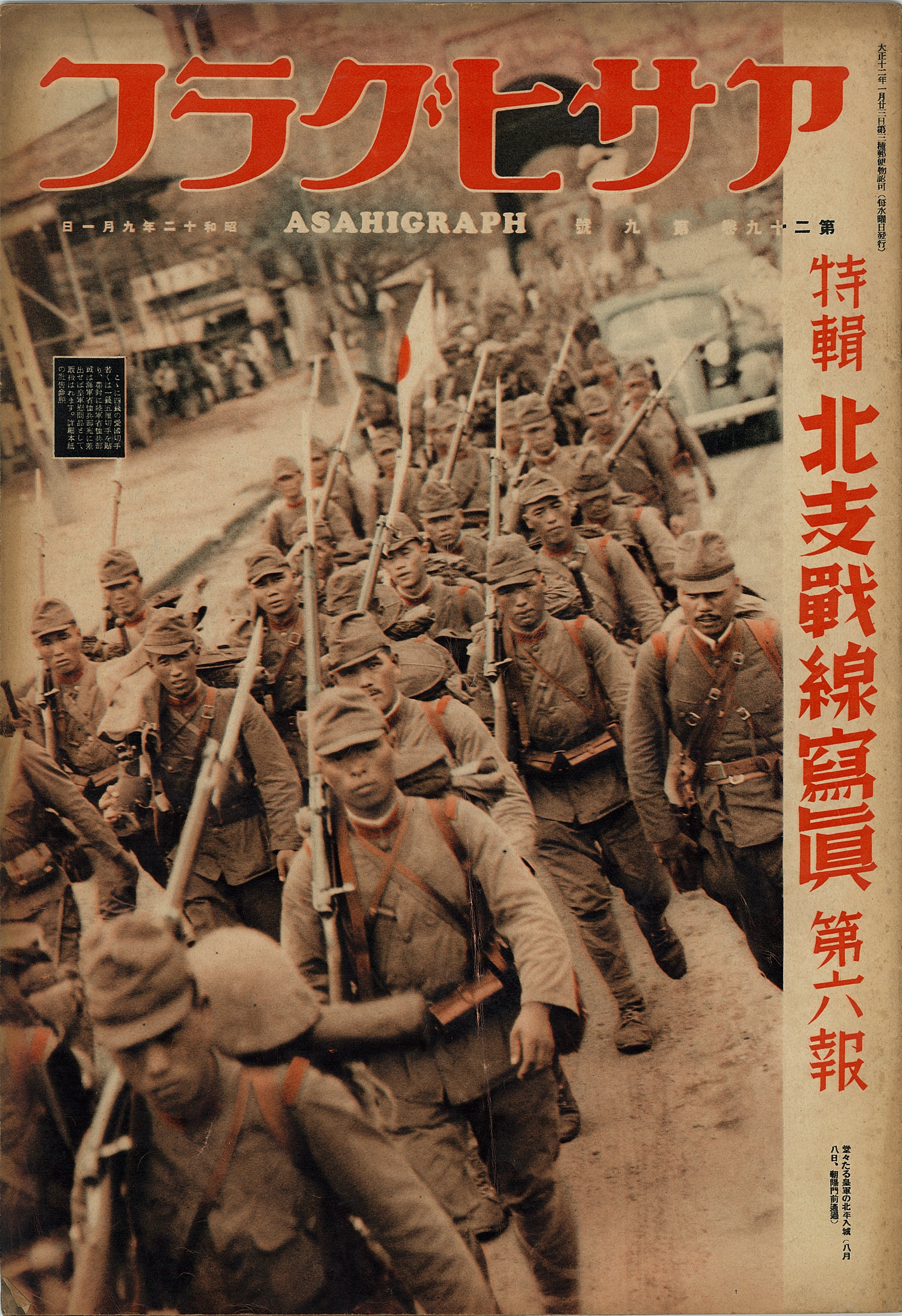 The Cover of the September 1st 1937 ASAHIGRAPH magazine. The cover depicts the Japanese Imperial Army marching into Beijing (Chaoyangmen Gate).